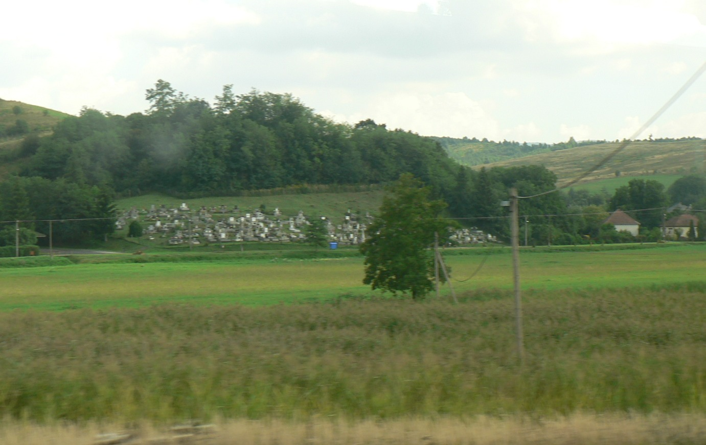 Bükkmogyorósdi temető